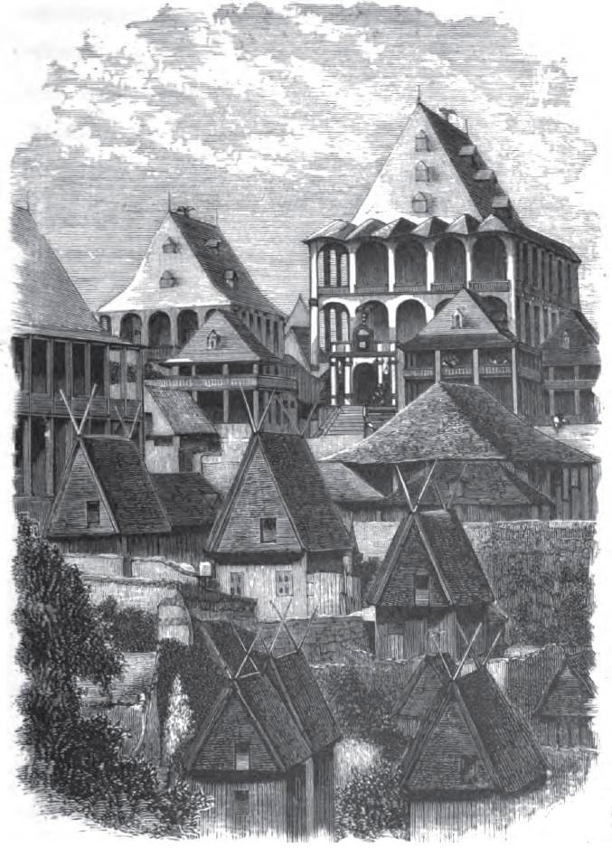 Illustration of the royal Rova compound of Antananarivo, Madagascar, during the reign of Ranavalona I.